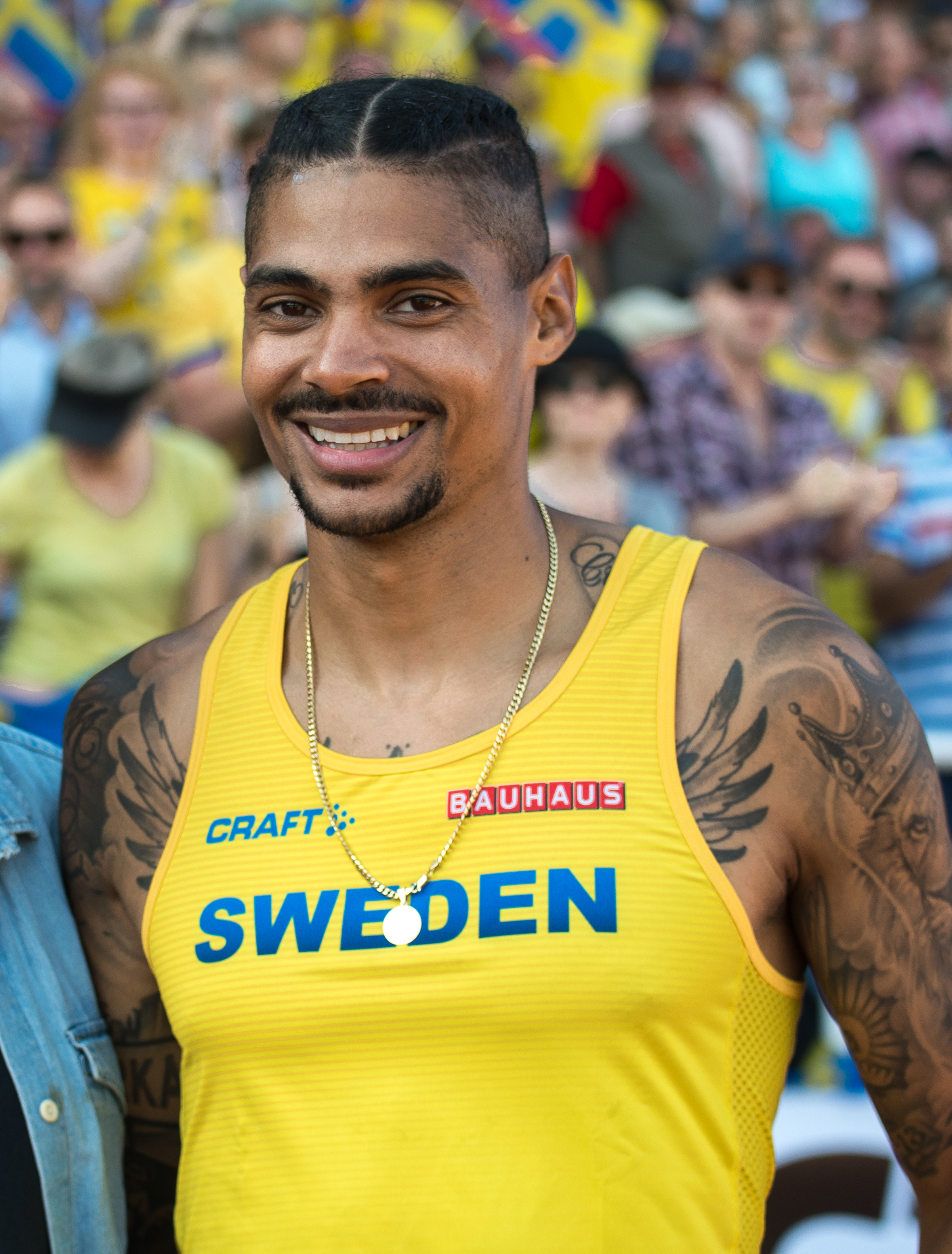 Michel Tornéus during the Finland-Sweden athletics international 2019 at the Stockholm Stadium in August 2019